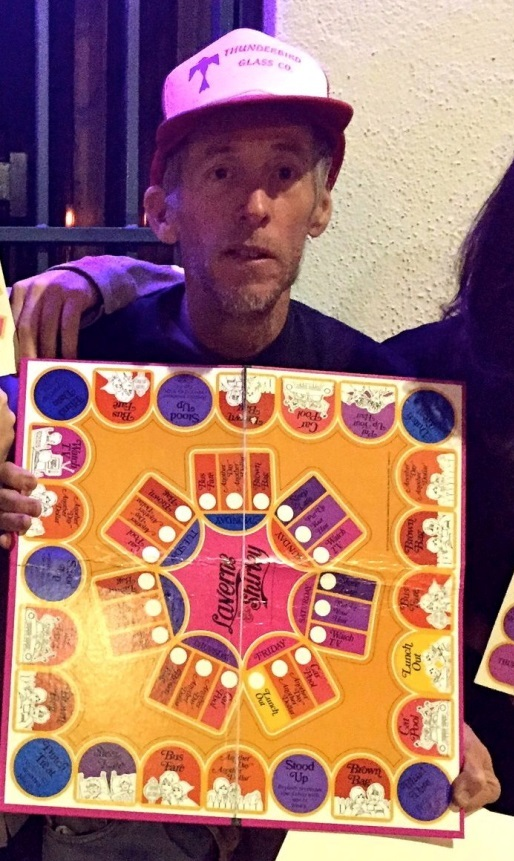 Photo of Actor Gary Riley 2015 in Burbank California.